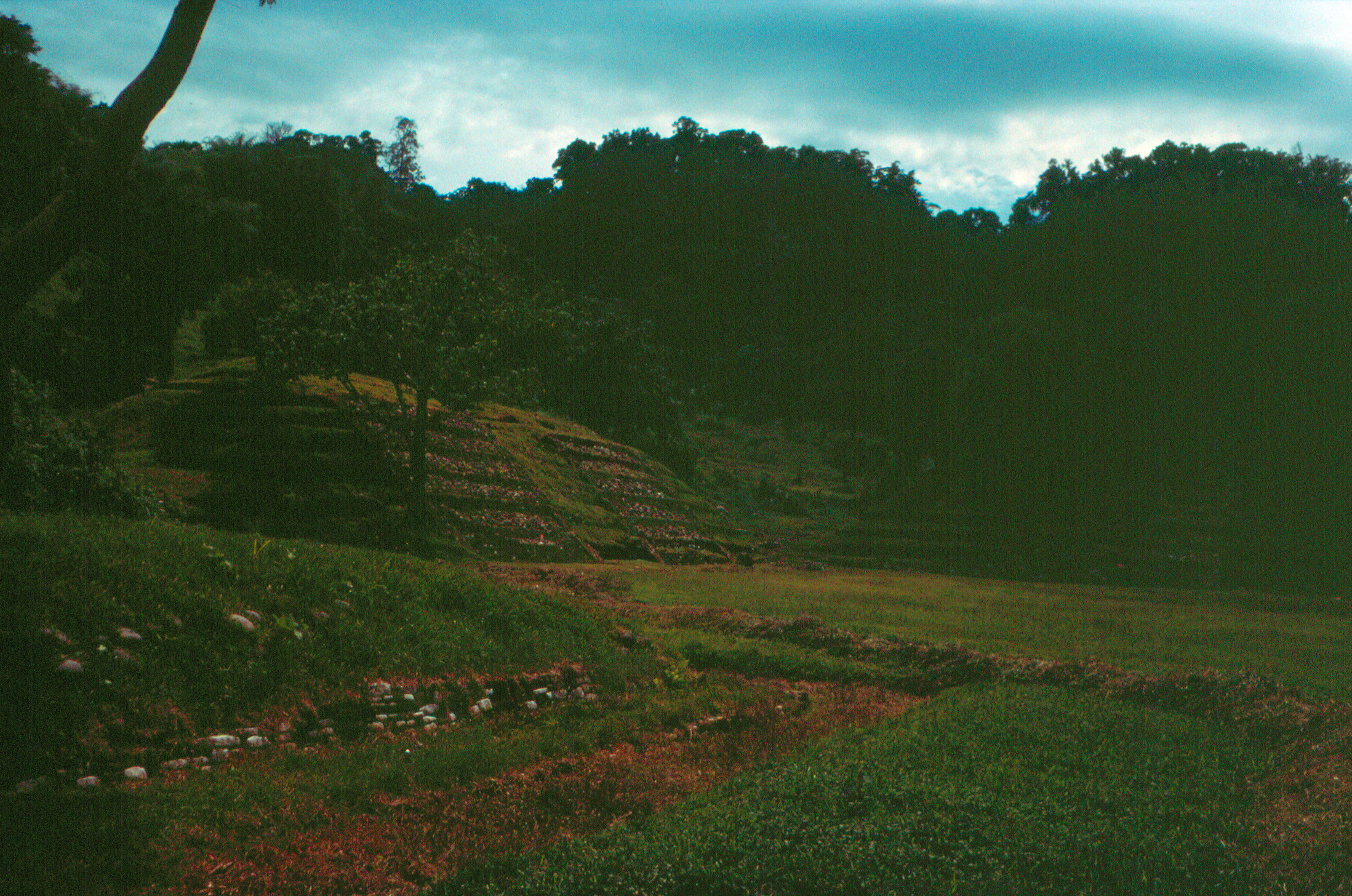 Filobobos, Veracruz, Mexico: Pyramids and courtyard.